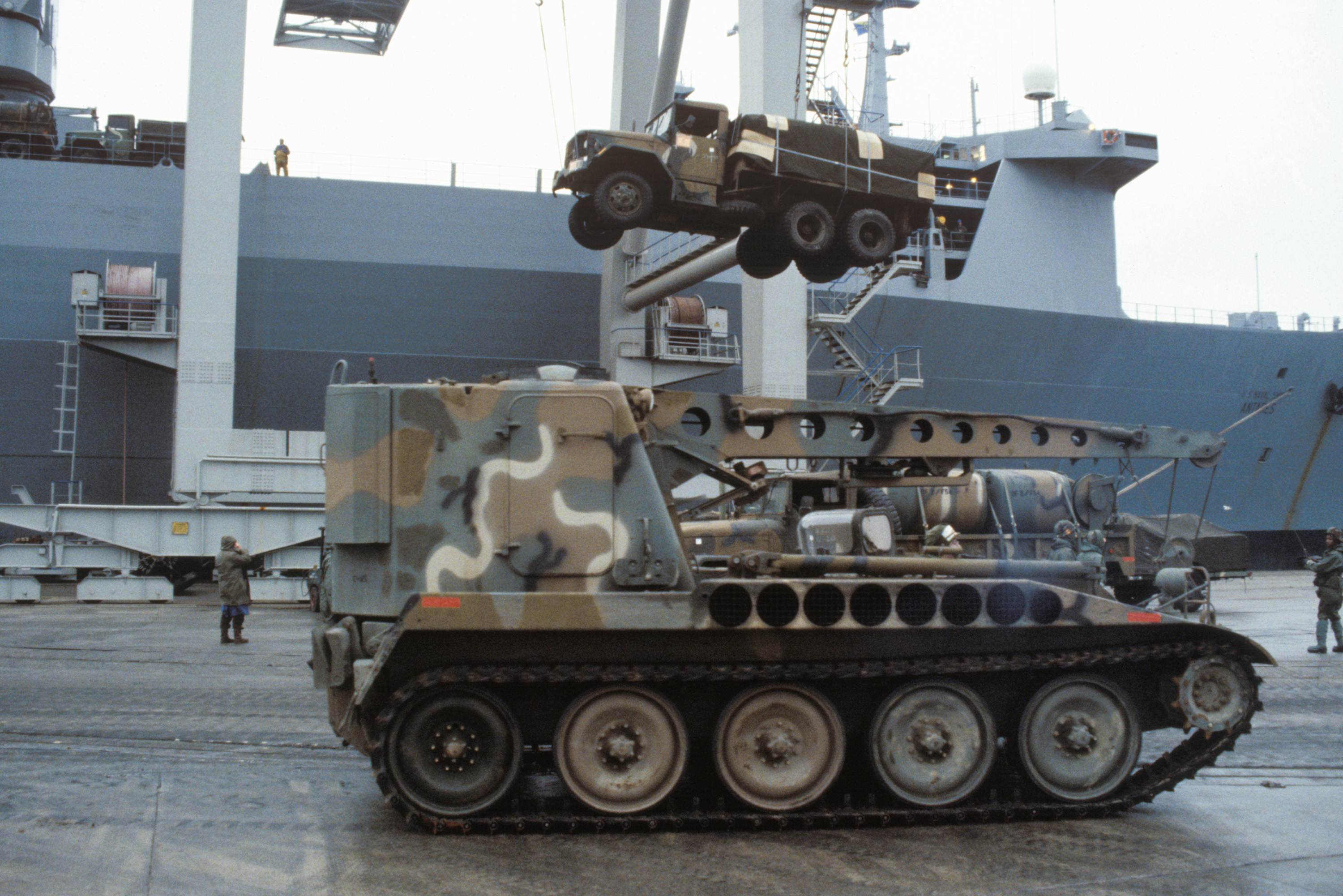 ID: DAST8704184 Service Depicted: Multi-National An M578 light armored recovery vehicle is parked at the Dundalk Marine Terminal after being offloaded from the vehicle cargo/rapid response ship USNS ANTARES (T-AKR 294). The vehicle was used by the 32nd Separate Infantry Brigade (Mechanized), Wisconsin Army National Guard, during Exercise REFORGER'86. An M35A2 2 1/2 ton cargo truck is being lowered by crane in the background. Location: BALTIMORE, MARYLAND (MD) UNITED STATES OF AMERICA (USA)